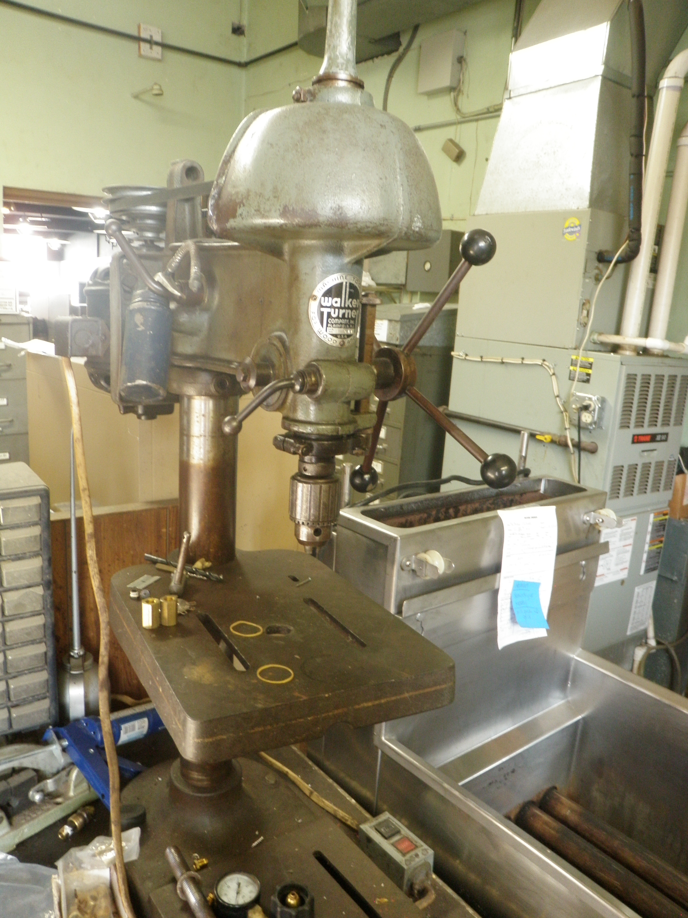 This is an antique walker turner drill press, exact date unknown